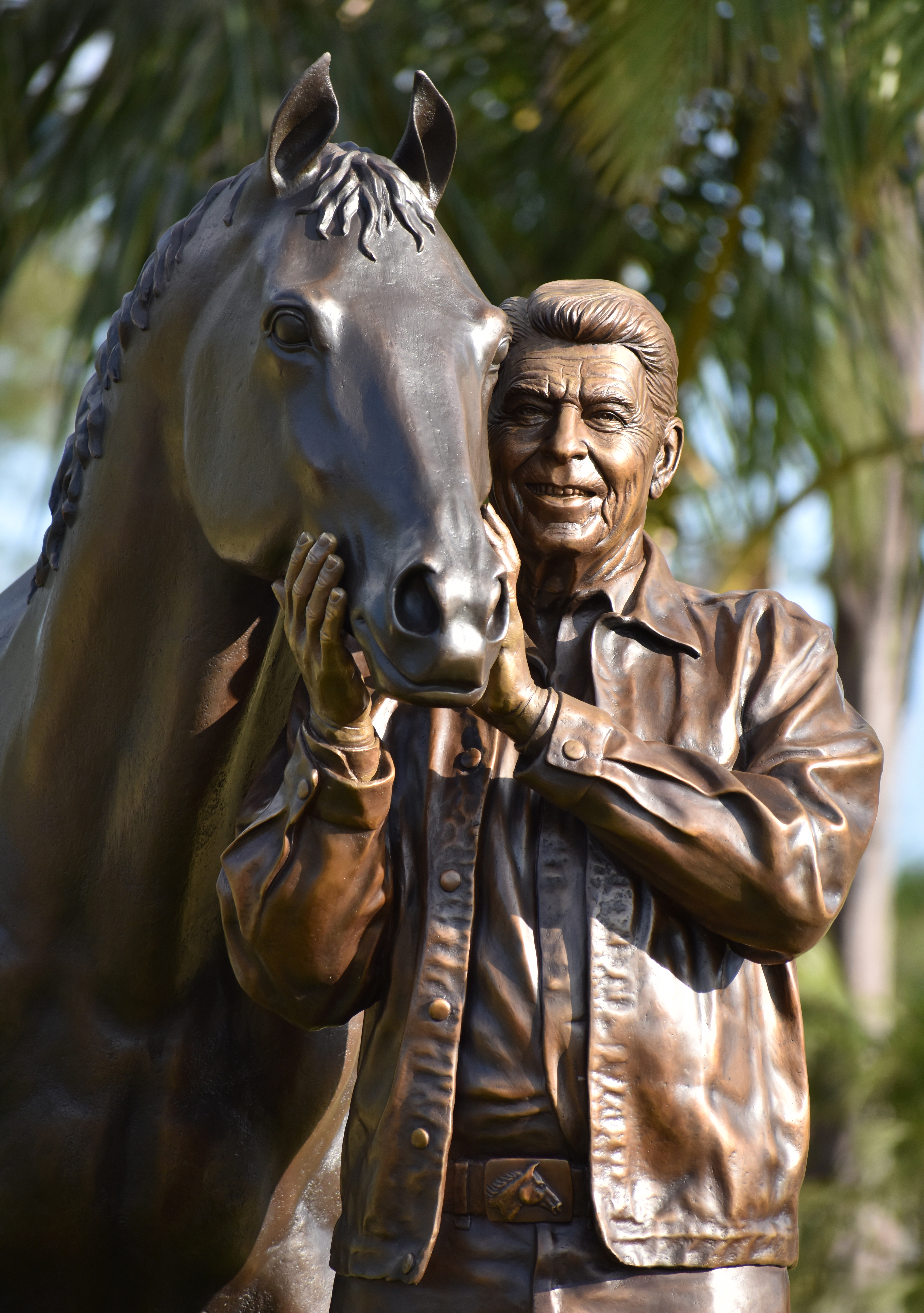 Ronald Reagan Equestrian Monument, Miami, Florida. This sculpture is a product of the Miami-Dade County, Art in Public Places program. Unveiled in April 2018, at Tropical Park, this monument is an important public artwork by artist Carlos Enrique Prado.